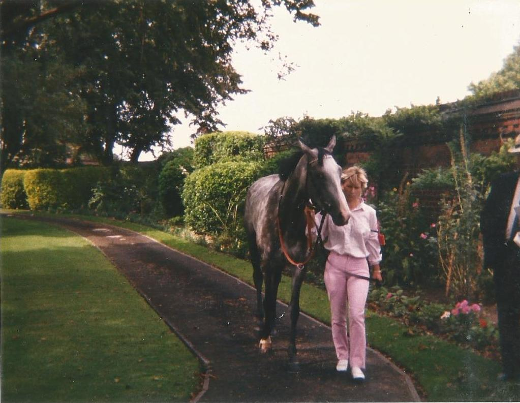 Indian Skimmer in the pre-parade ring prior to the International Stakes at York in August 1988.